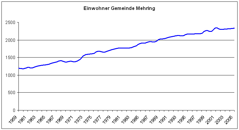 Population of Mehring